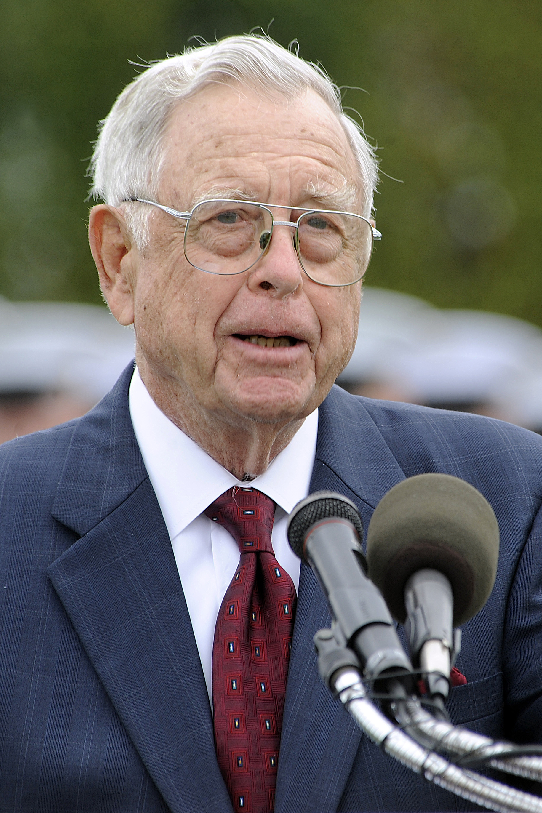 Retired rear admiral Jeremiah A. Denton Jr. addresses the audience during the National POW/MIA Recognition Day Ceremony at the Pentagon on Sept. 18, 2009. Denton spent 7 years and 7 months as a prisoner of war when he was shot down and captured by North Vietnamese troops in 1965.